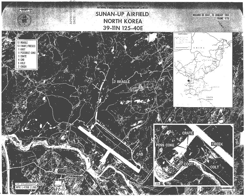 Cropped, lightened, sharpened using GIMP. CIA FOIA document on the A-12 OXCART Reconnaissance Aircraft Documentation page. CIA Oxcart photo of the Sunan-up airfield.